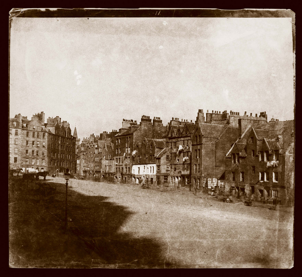 East end of the Grassmarket, Edinburgh